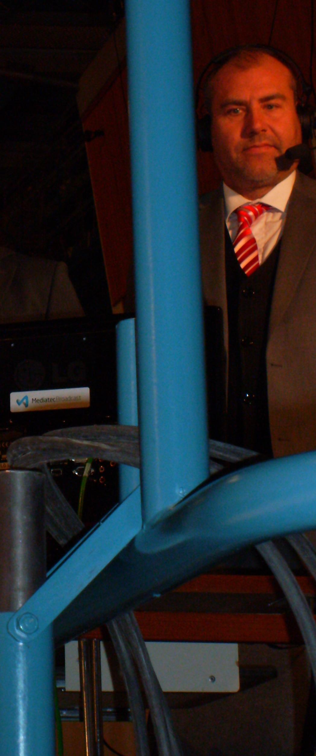 Niklas Holmgren, Swedish sportreporter.